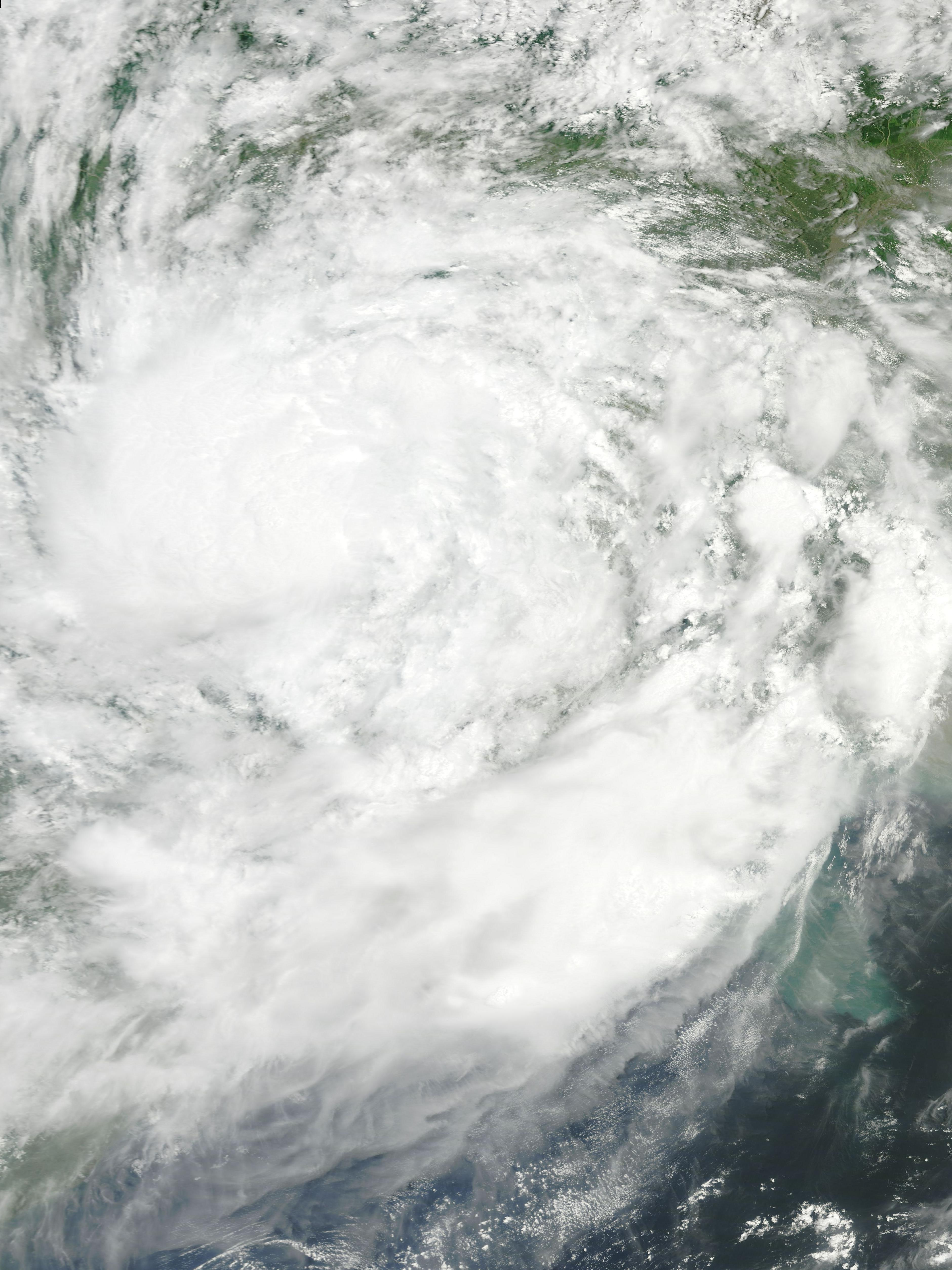 Remnants of Cyclonic Storm Komen on August 2, 2015